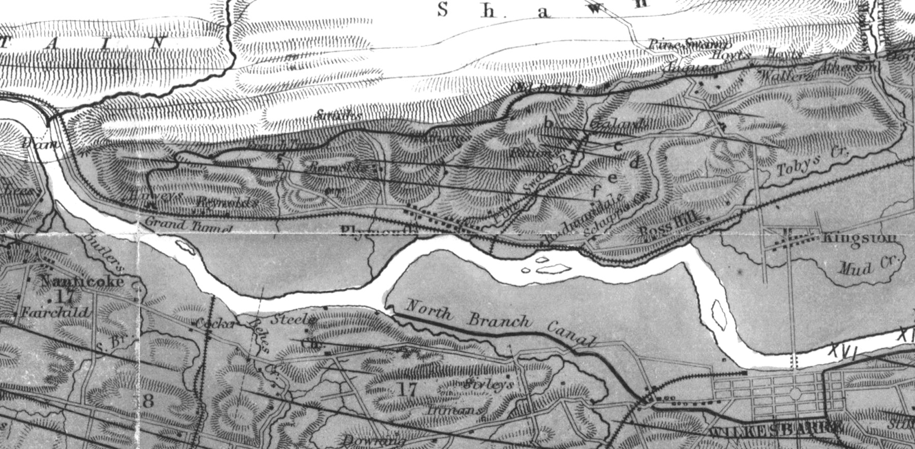 A detail of the 1858 "Geological and Topographical Map of the Anthracite Fields of Pennsylvania," created by Henry D. Rogers, State Geologist.